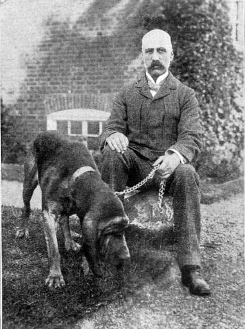 Edwin Brough and one of his bloodhounds at Scalby Manor in 1899